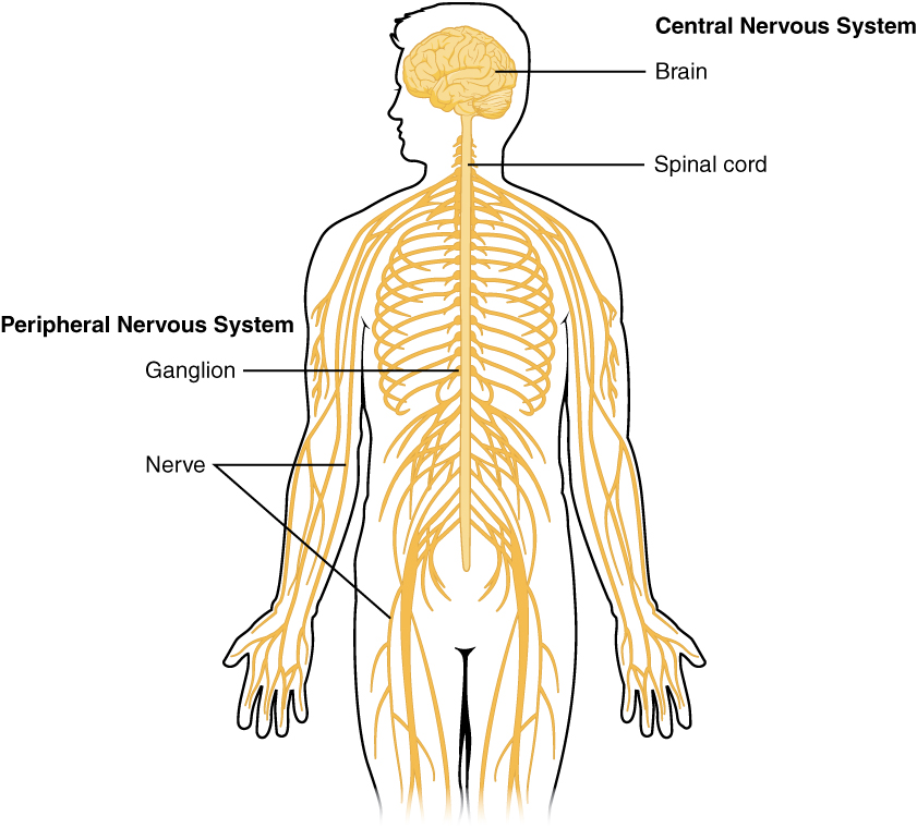 Version 8.25 from the Textbook OpenStax Anatomy and Physiology Published May 18, 2016